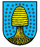 Coat of Arms of Reinsdorf (Sachsen)